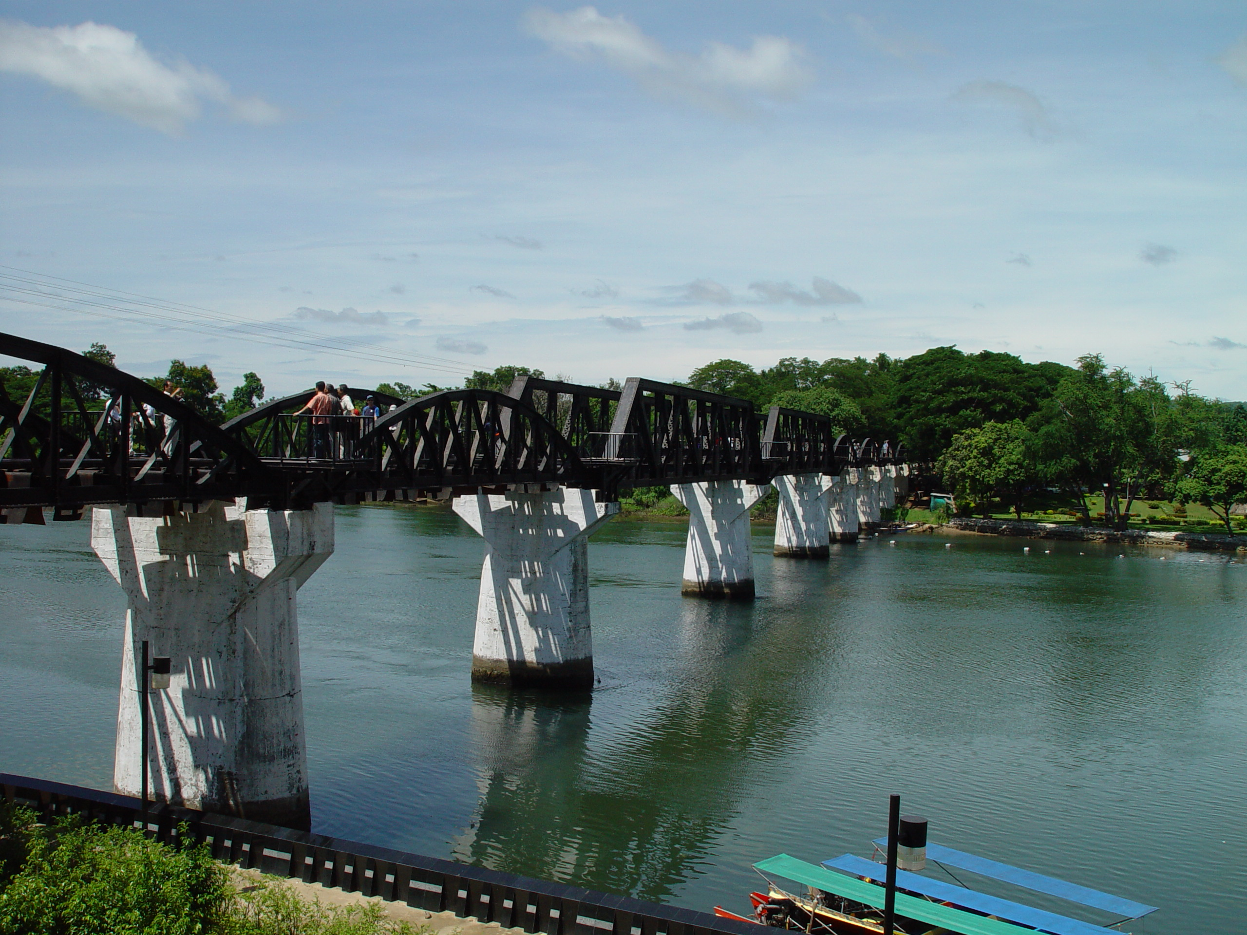 The Bridge over the river Kwai, at Kanchanaburi, Thailand. The round shaped truss spans are the originals; the two trapezoidal replacements were supplied as war reparations from Japan.